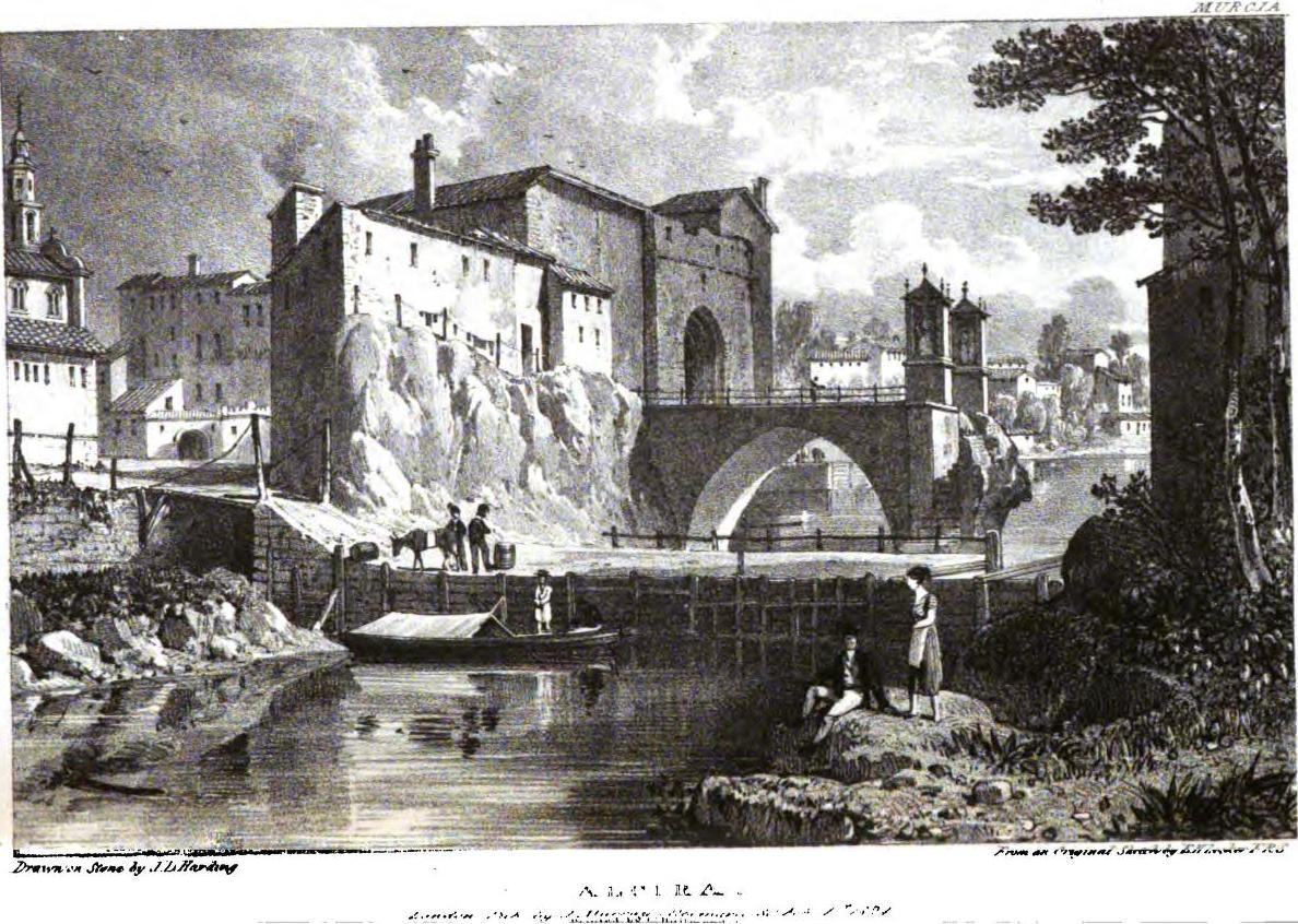 Alcira (work "Views in Spain")